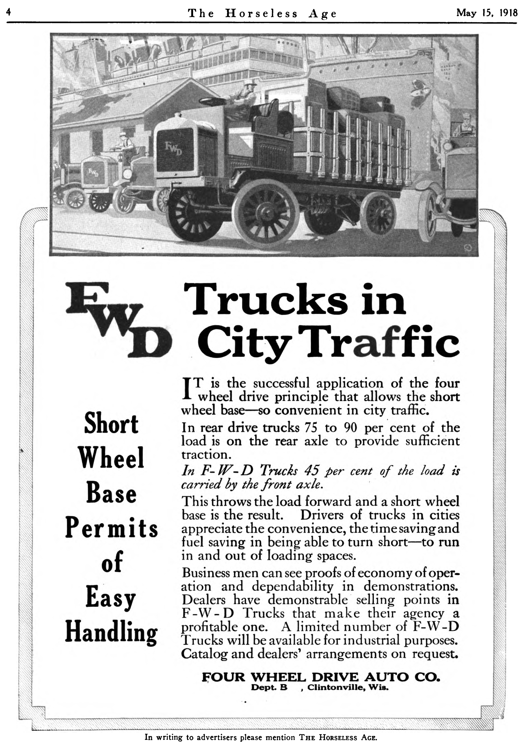 Four Wheel Drive Auto Company trucks advertisement in the journal Horseless Age, May 15, 1918, volume 44, issue 4, page 4.